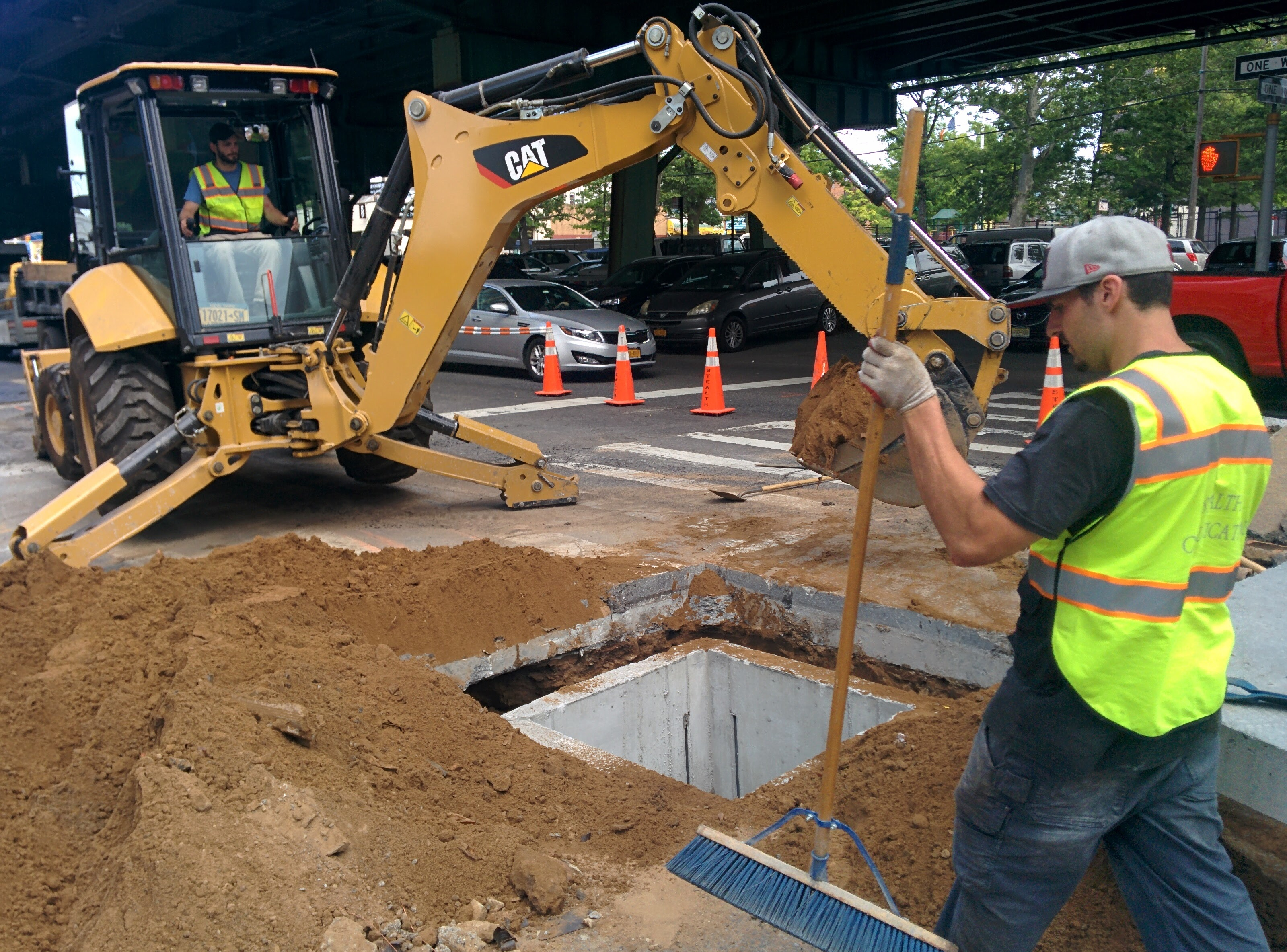 Stealth Communications installing fiber-optic manhole in Brooklyn, New York.